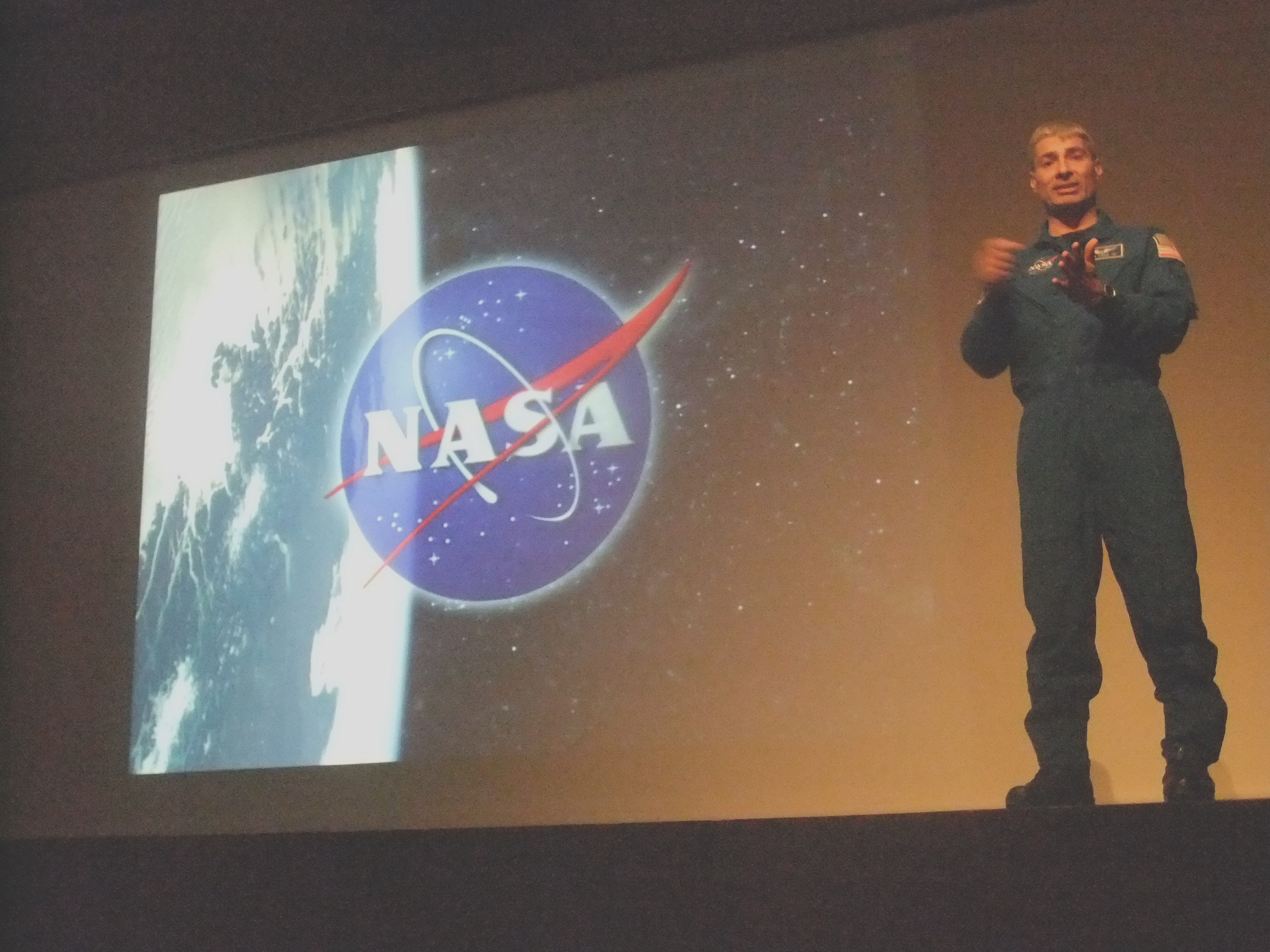 Picture of astronaut Mark Vande Hei from a talk that he gave at the College of St. Benedict / St. John's University on 2012-01-31.